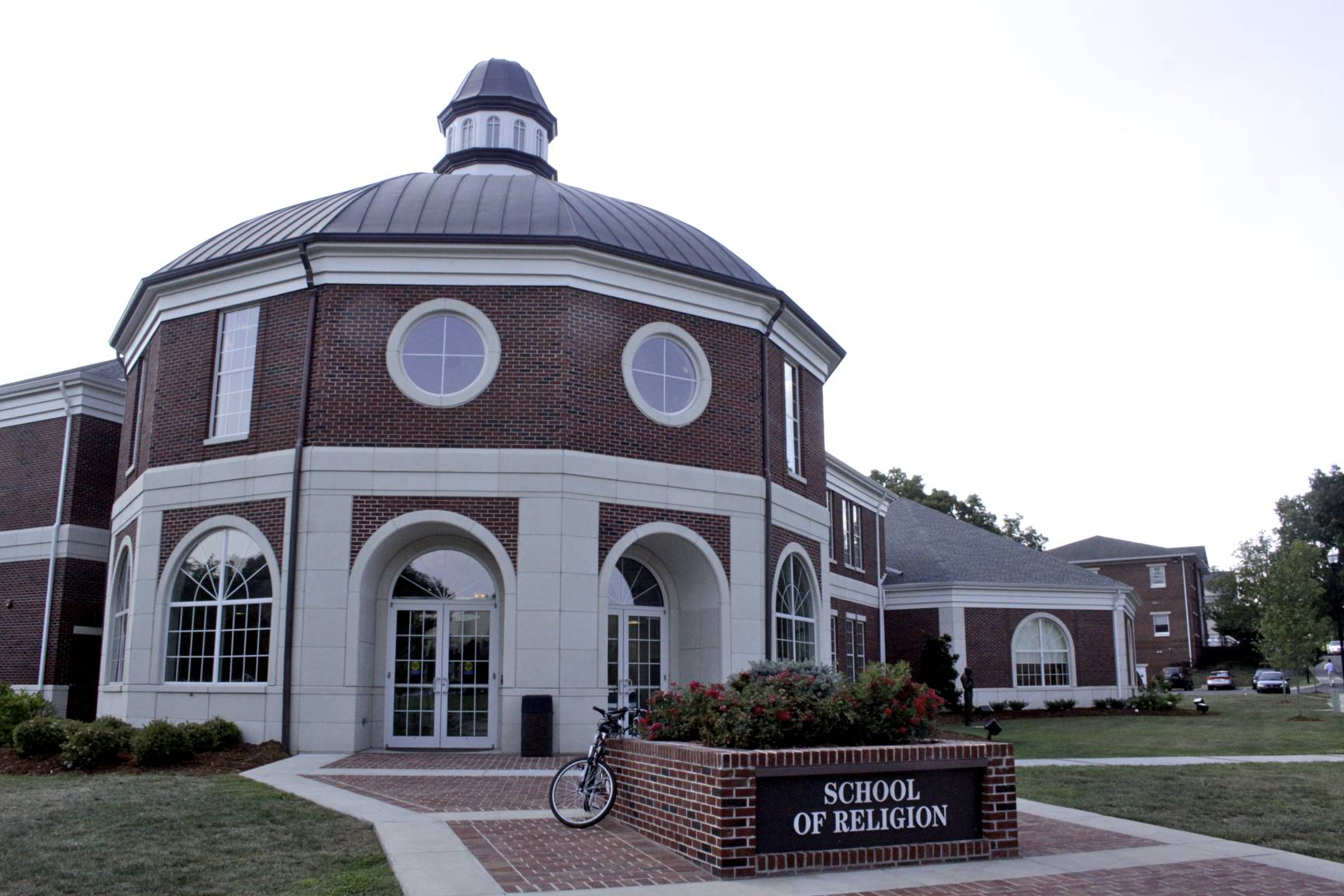 Lee University